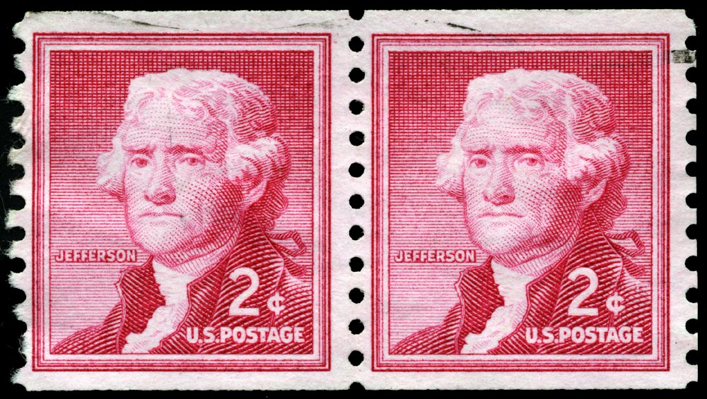 United States 2c coil stamp of 1954